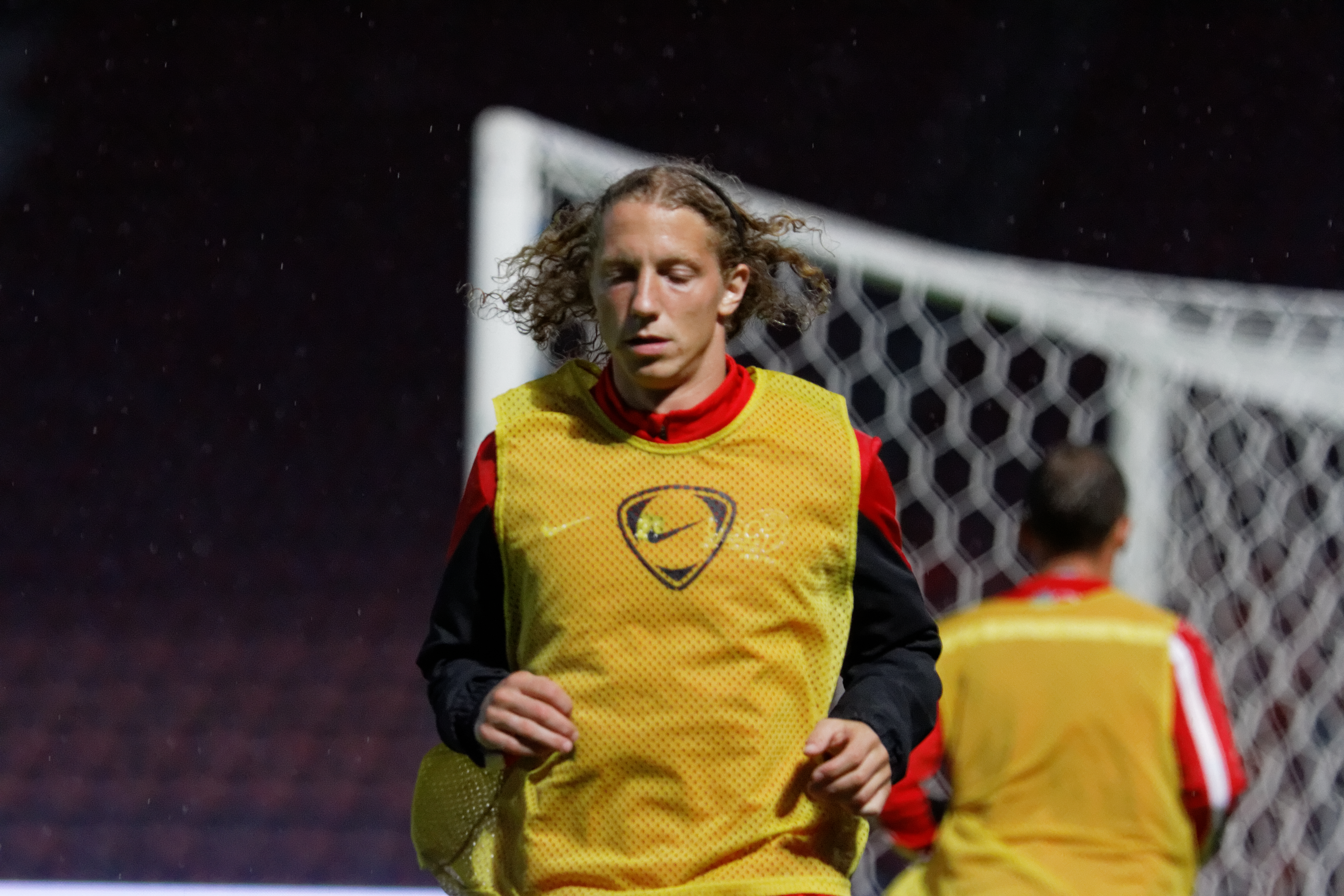 Créteil vs Châteauroux, 8th August 2014.